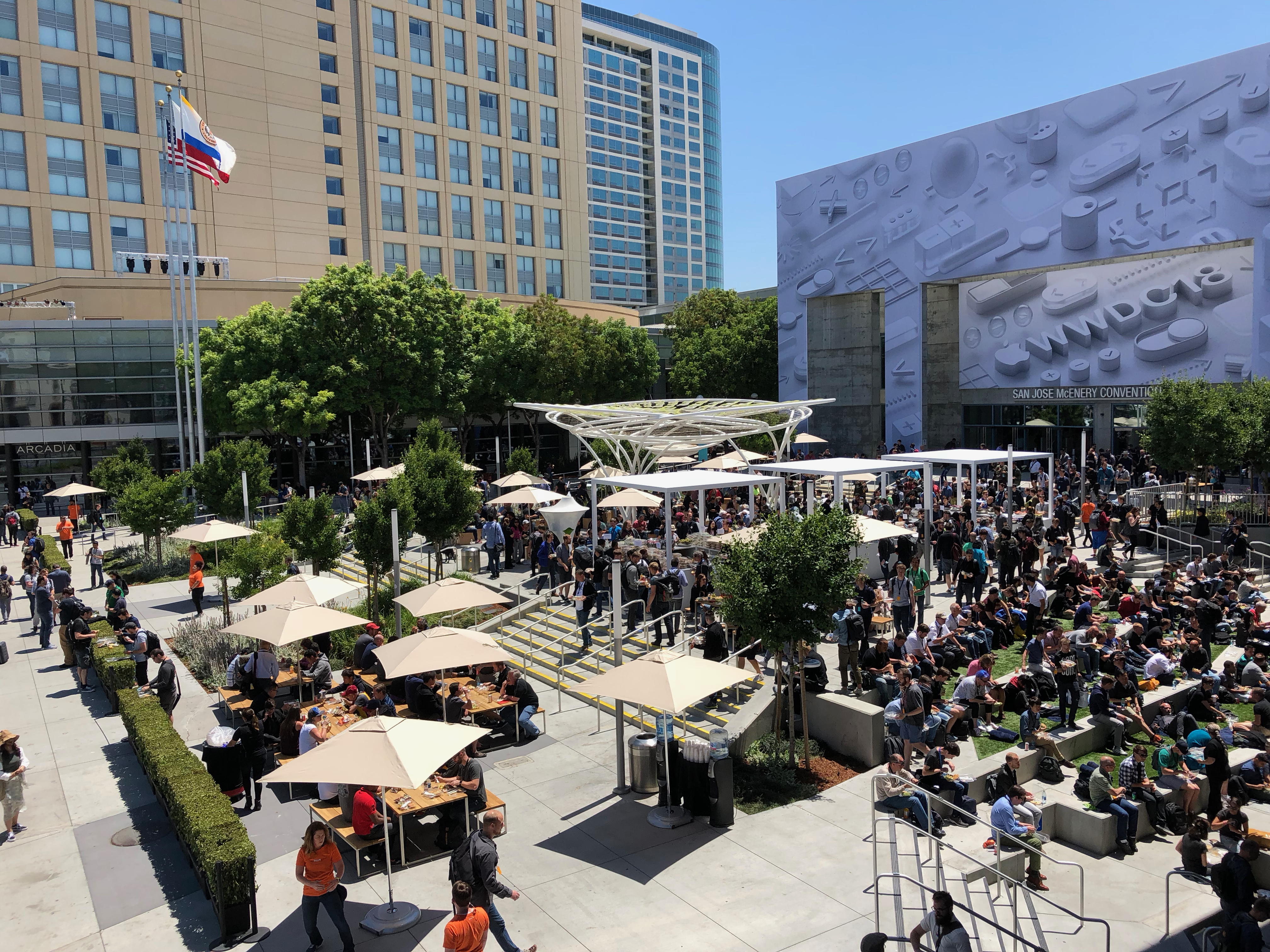 The plaza in front of the San Jose Convention Center in San Jose, California, United States, during the 2018 Apple Worldwide Developers Conference.